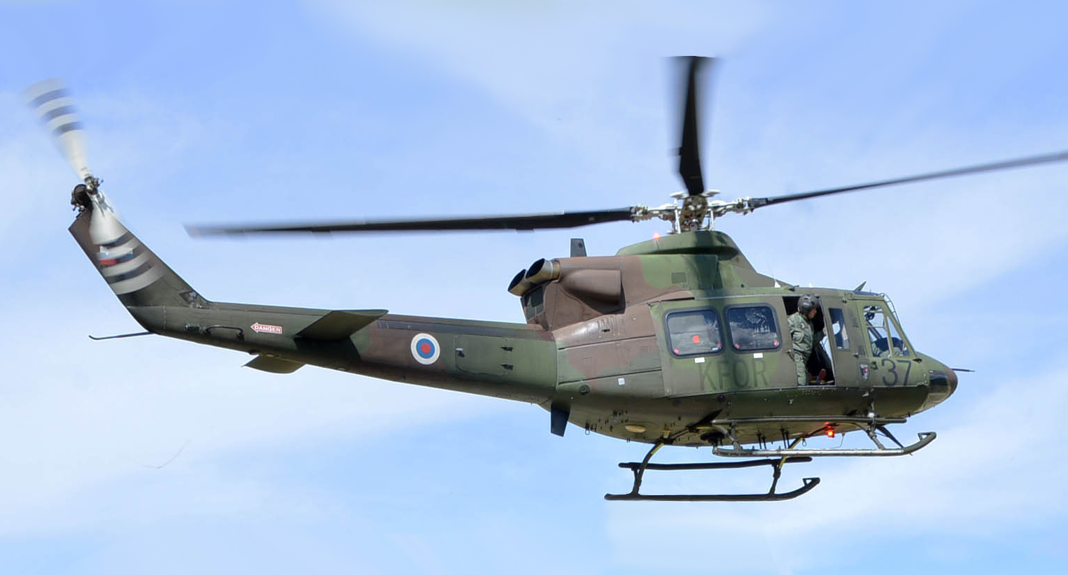 Slovenian Air Force Bell 412